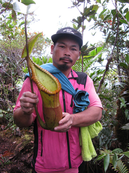 N.macrophylla